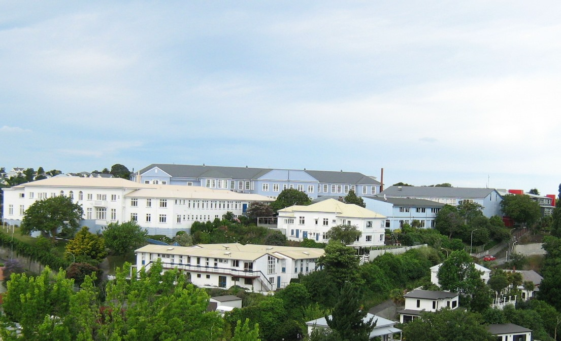 Photo of Napier Girls' High School taken from Sealy Road on the opposite side of Napier Hill.